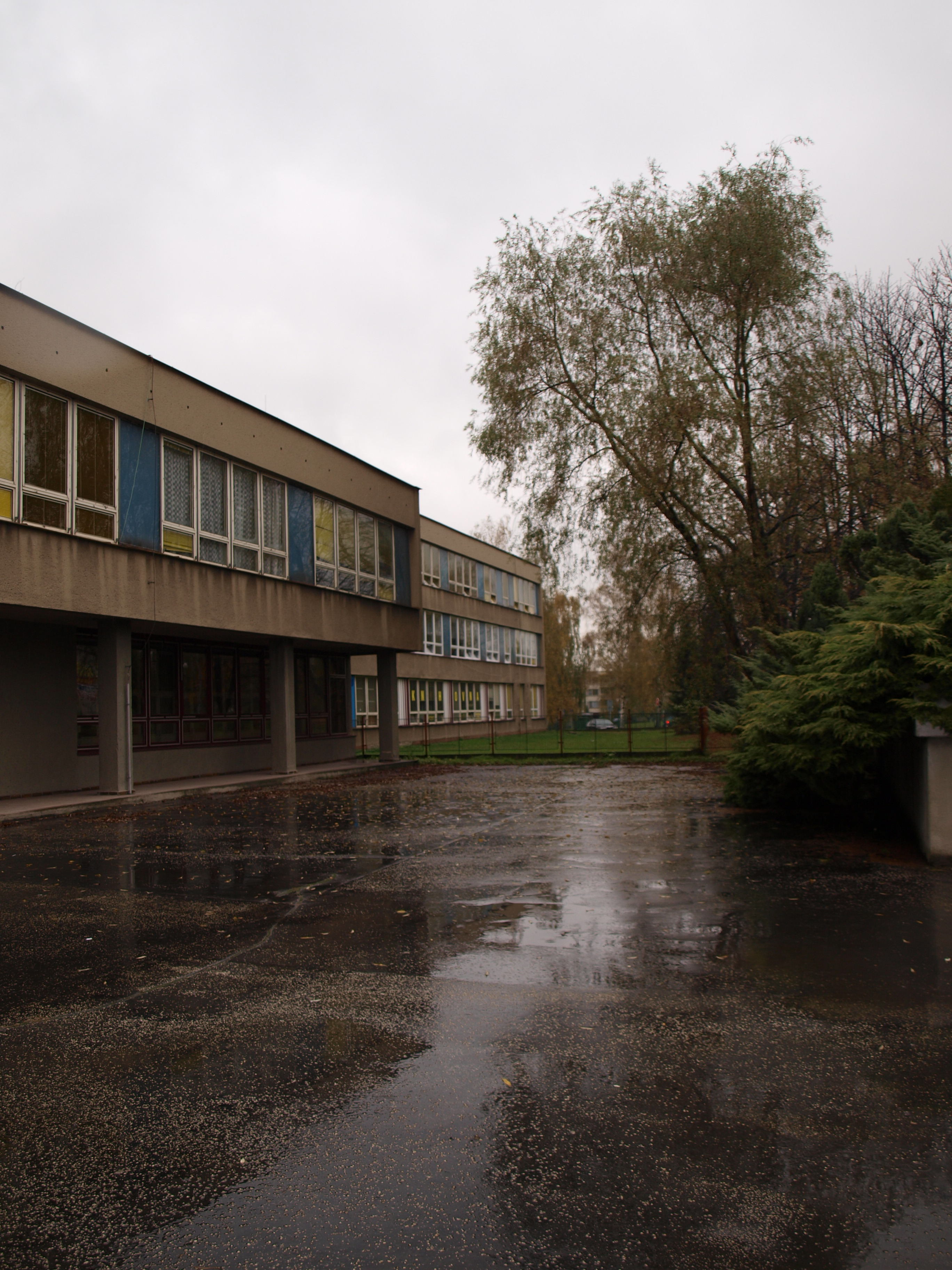 Polish secondary school in Karwina